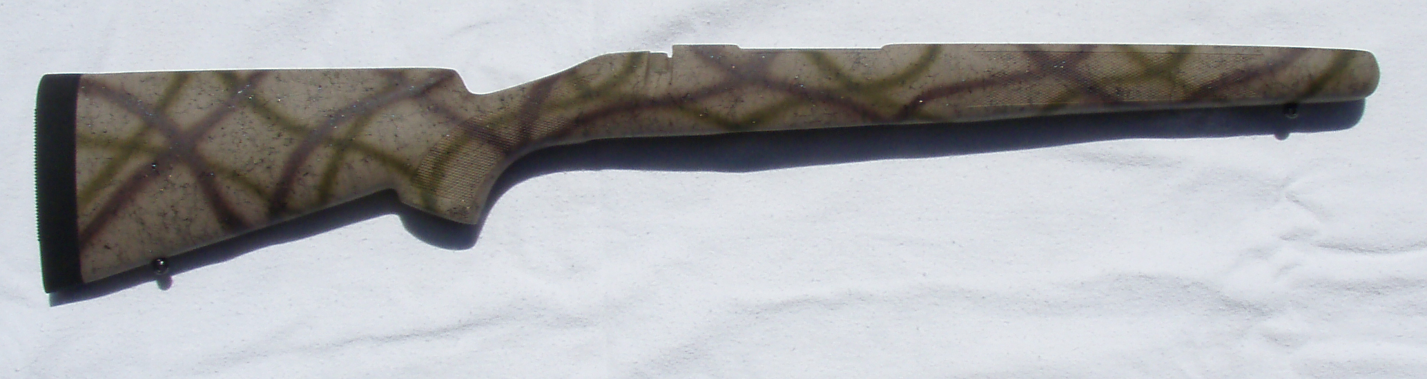 Custom rifle stock with camo finish (Bell & Carlson) right side